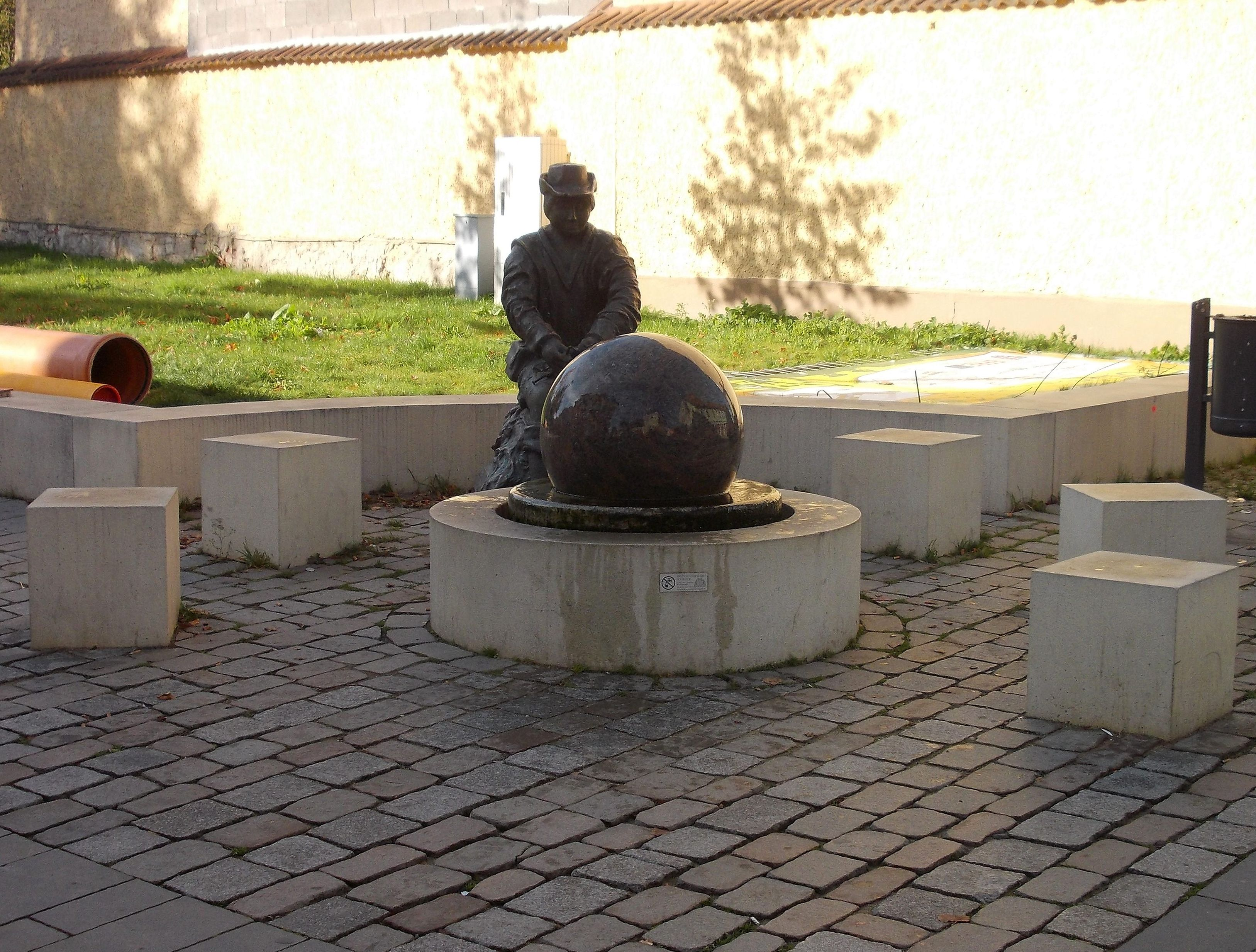 David the Knitter Fountain in Apolda (Weimarer Land district, Thuringia)